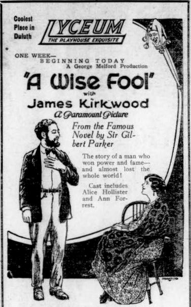 Newspaper advertisement for the American film A Wise Fool (1921) with Alice Hollister and James Kirkwood, on page 7 of the July 2, 1921 Duluth Herald.